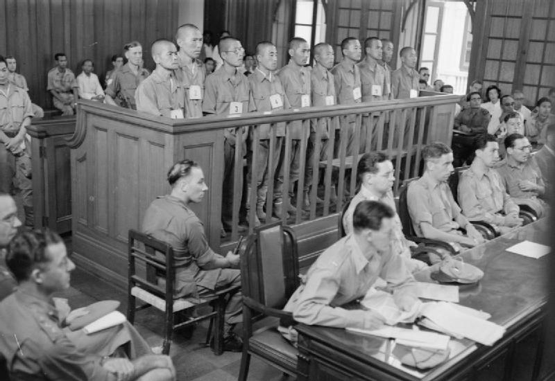 Indicted Japanese war criminals standing to attention in the dock of the Singapore Supreme Court at the beginning of the trial. This photograph shows a scene from the first war crimes trial to be held in South East Asia Command. Ten Japanese officers and men were charged with offences of beating, overworking and general maltreatment of Indian prisoners of war, which in some cases led to the death of prisoners. A number were also charged with executing prisoners.